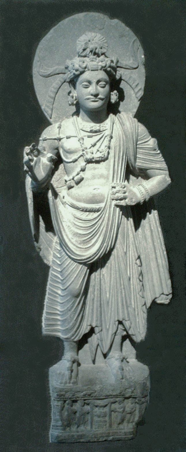 Standing Bodhisattva (Fr. Bodhisattva Debout). Pakistan, Gandharan art, site of Shahbaz-Garhi. The identity of the bodhisattva is not known, so the work is is simply titled "Standing Bodhisattva." The representation is of a standard bodhisattva of the Gandharan style, displaying the fearlessness mudra. No clear indicator identifies the figure as one bodhisattva or another. The Musée Guimet suggests that it may be Gautama or Avalokiteshvara.